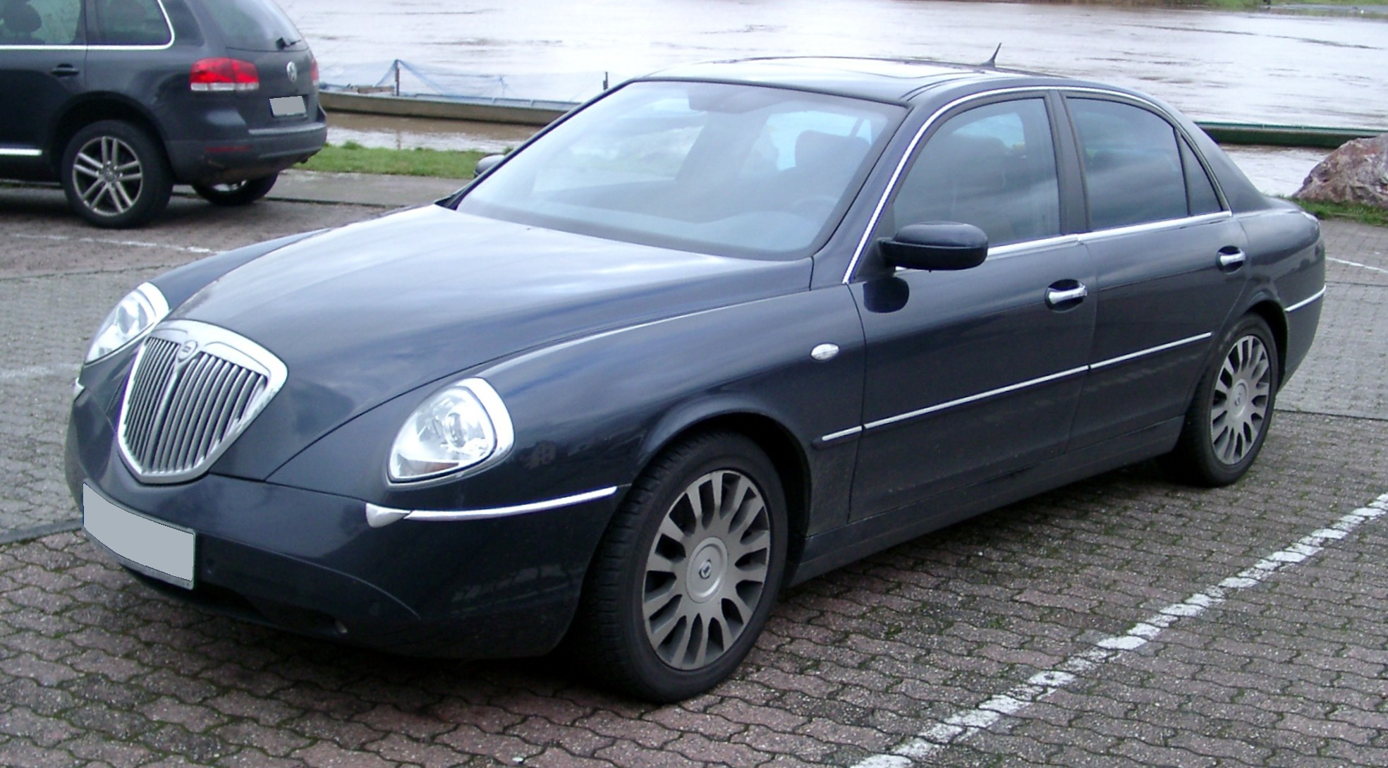 Lancia Thesis